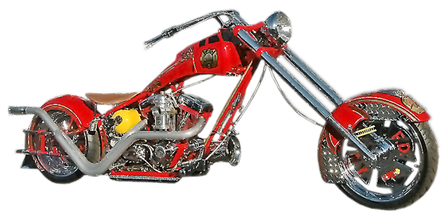 The Fire Bike was a chopper built by Orange County Choppers as a tribute to the firefighters who died in the World Trade Center disaster on September 11th, 2001